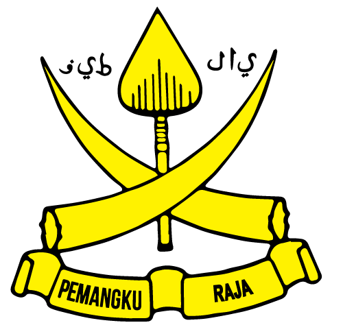 Personal Coat of Arms of Regent of Pahang